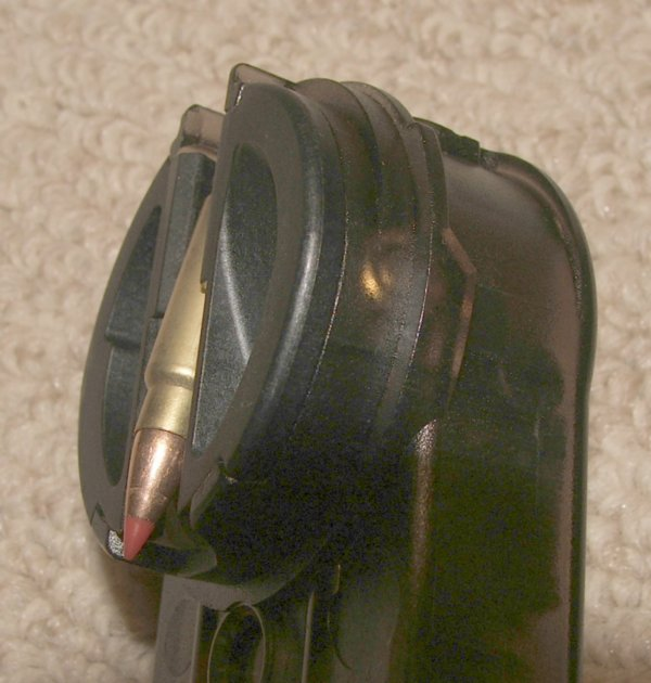 Magazine for Fabrique Nationale Herstal (Belgium) PS90 civil-variant of P90 submachine gun. Good to see: The special rotating of the ammunition.